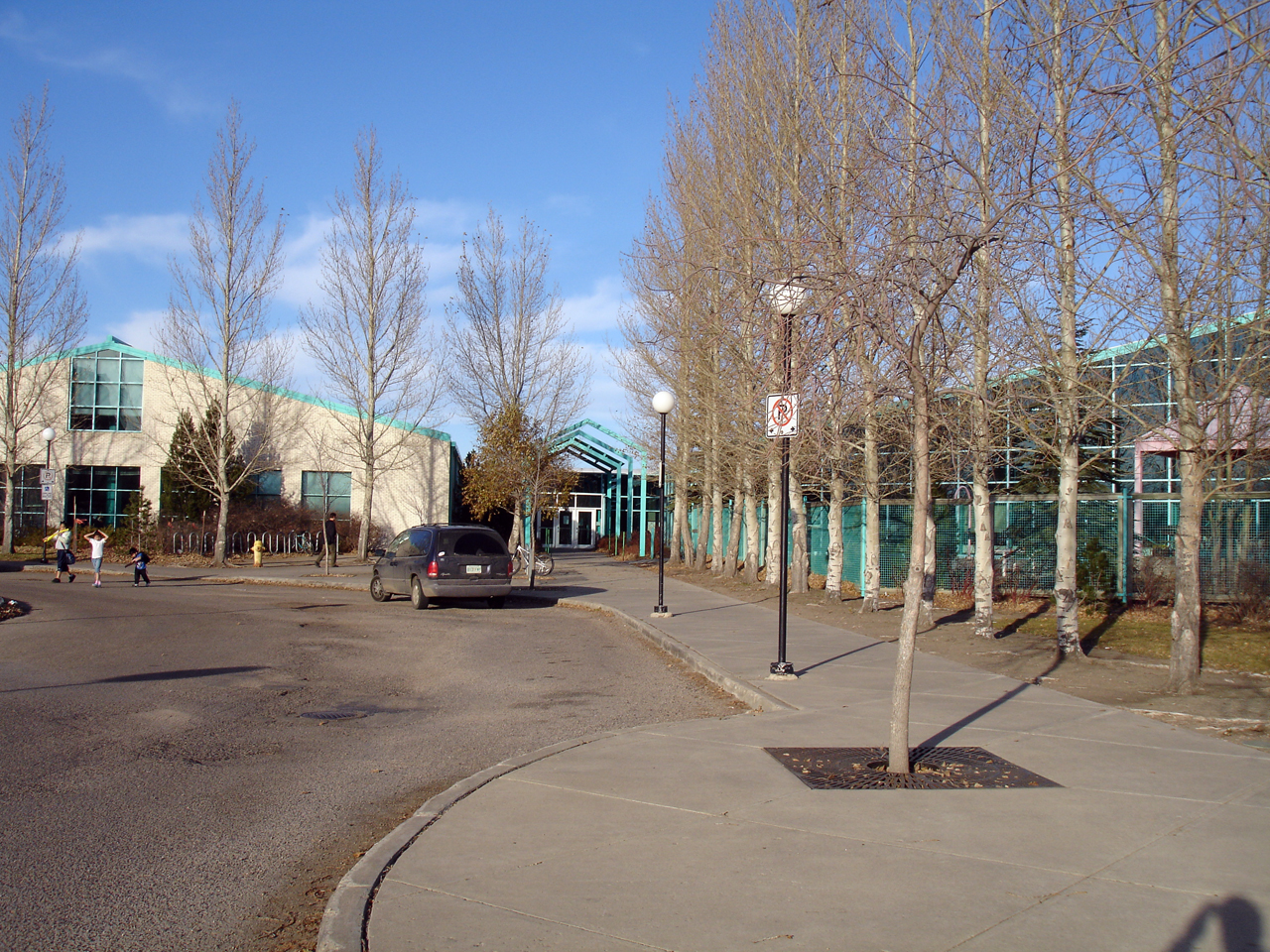 The Lakewood Civic Centre recreation complex in the Wildwood neighbourhood of Saskatoon, Saskatchewan, Canada.